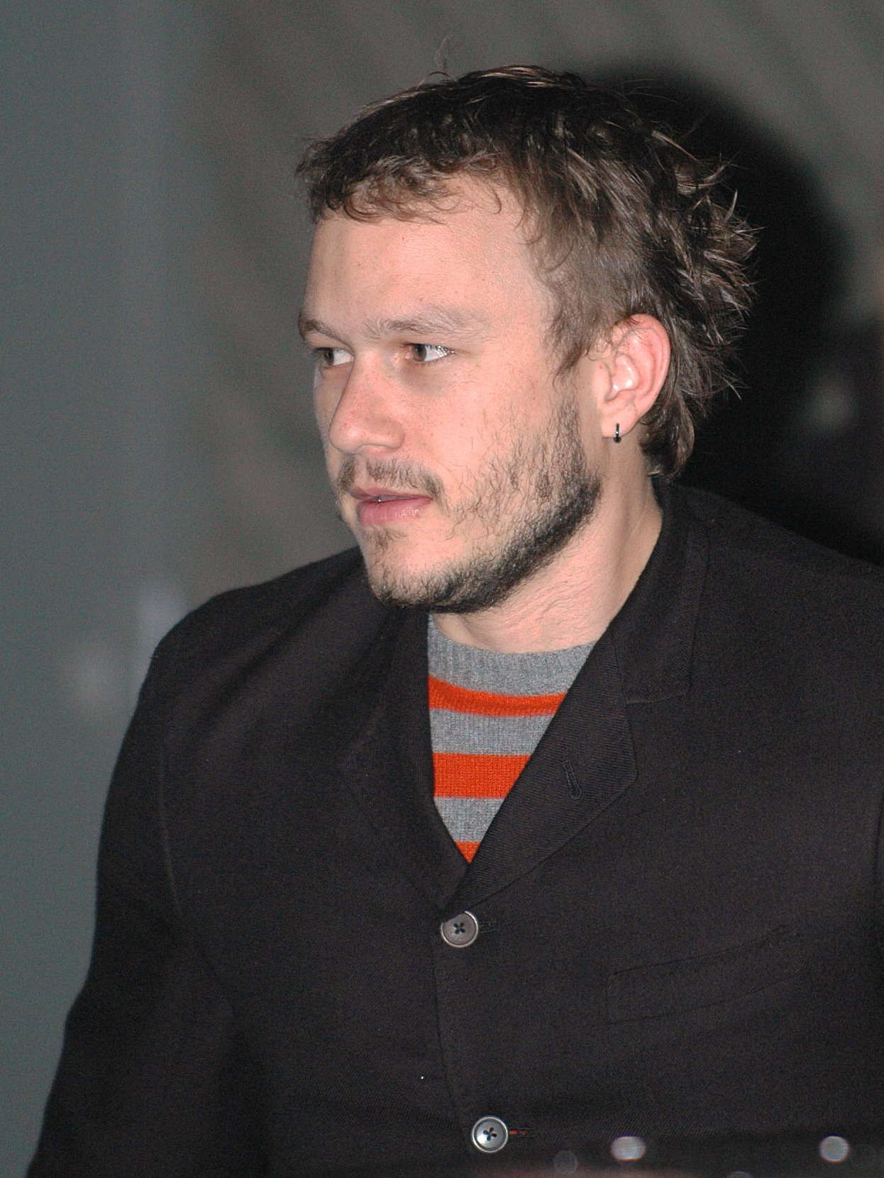 Heath Ledger at the press conference for his movie "Candy" at Hyatt Hotel, Potsdamer Platz, Berlin